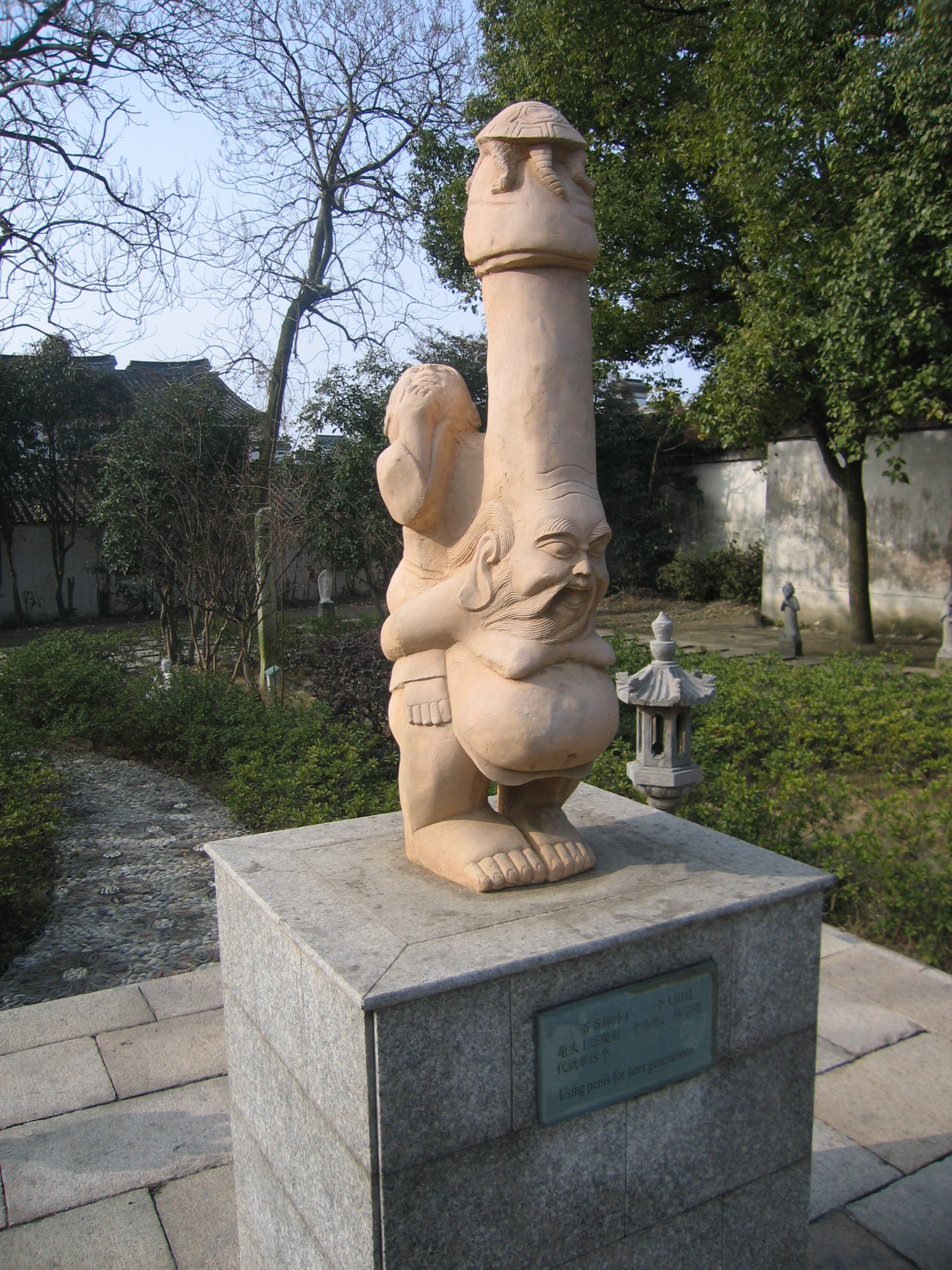 Sculpture titled "Using Penis for Later Generations" at the China Sex Museum in Tongli.